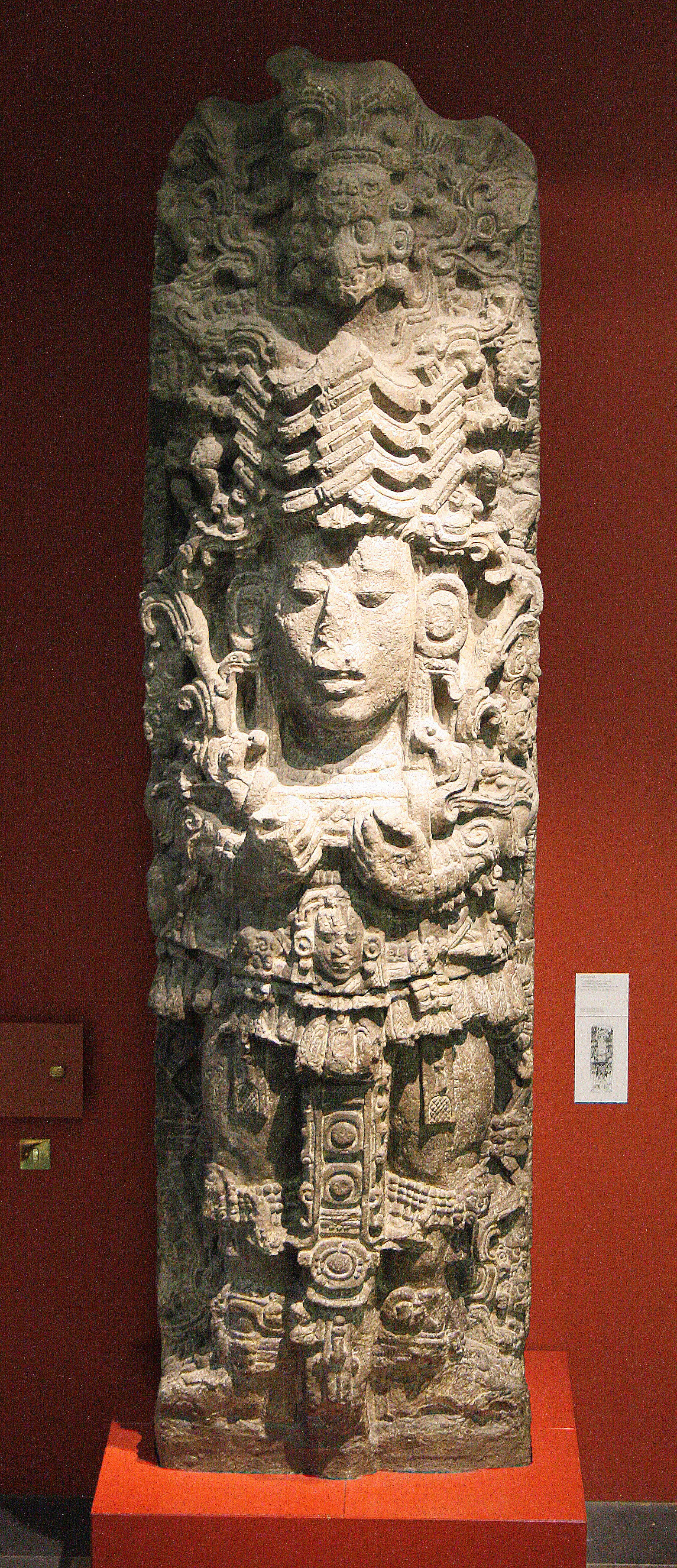 Cast of Stela A, Maya site of Copan, made Alfred Maudslay, Department of the Americas, British Museum